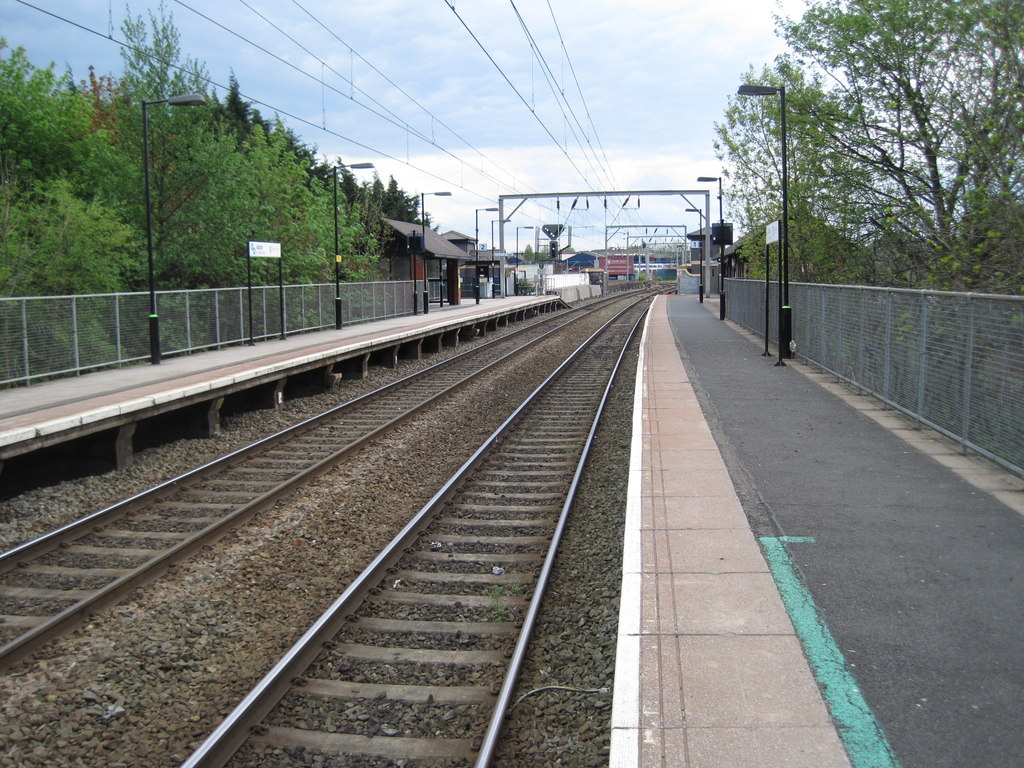 Aston railway station, Birmingham Opened in 1854 by the London & North Western Railway on the line from Birmingham via Bescot to Stafford. View south east towards Duddeston and Birmingham.